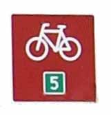 Sykkelrute norge, Cycleway Norway, Sign